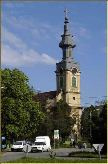 "Holy Trinity" Roman-Catholic Church - OradeaRomână: Biserica romano-catolică „Sf. Treime” - Oradea